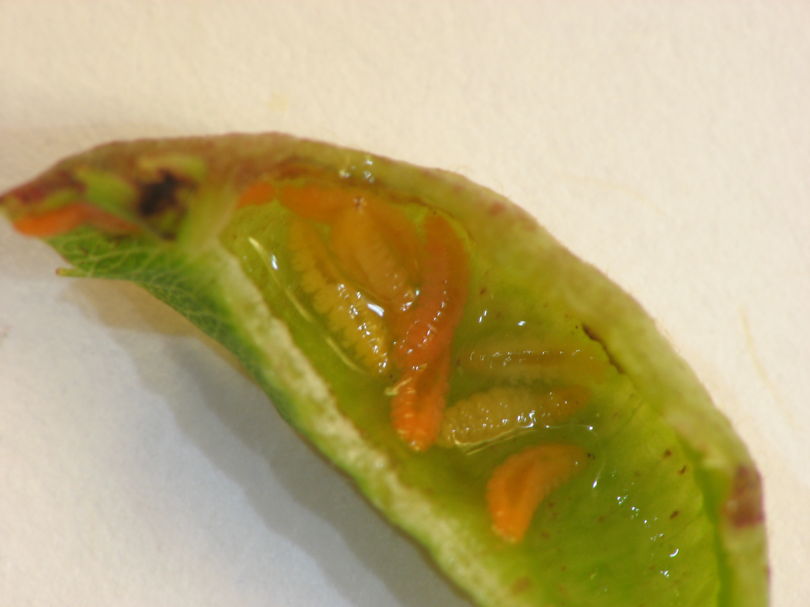 Larvae of the gall midge, Dasineura salicifoliae (3 mm) in gall made in meadowsweet (Spiraea latifolia). Schoodic Point, Acadia National Park, Hancock County, Maine, USA.